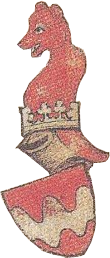 Code of Arms around 1370